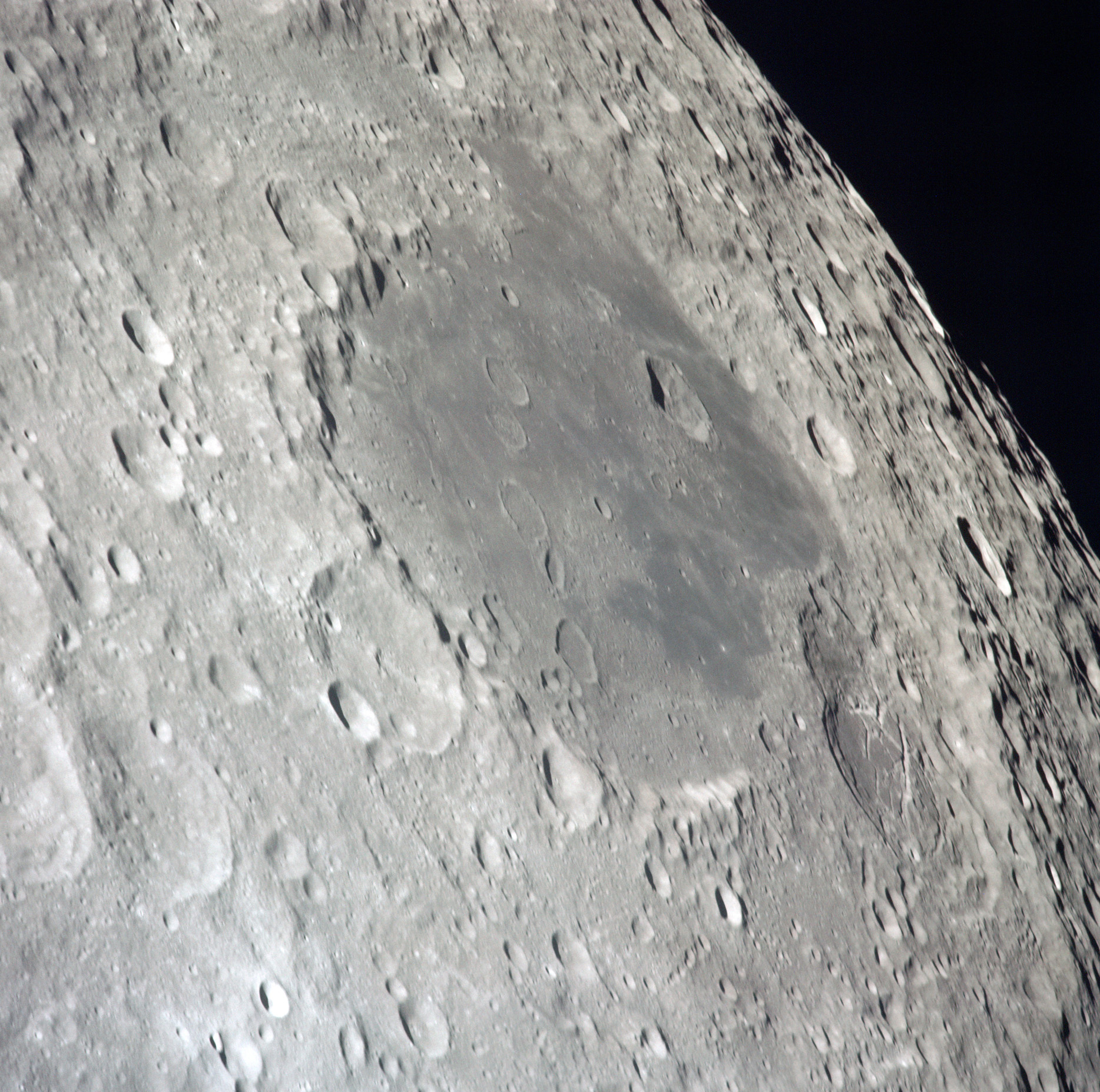 Oblique view of Mare Moscoviense, on the far side of the moon.